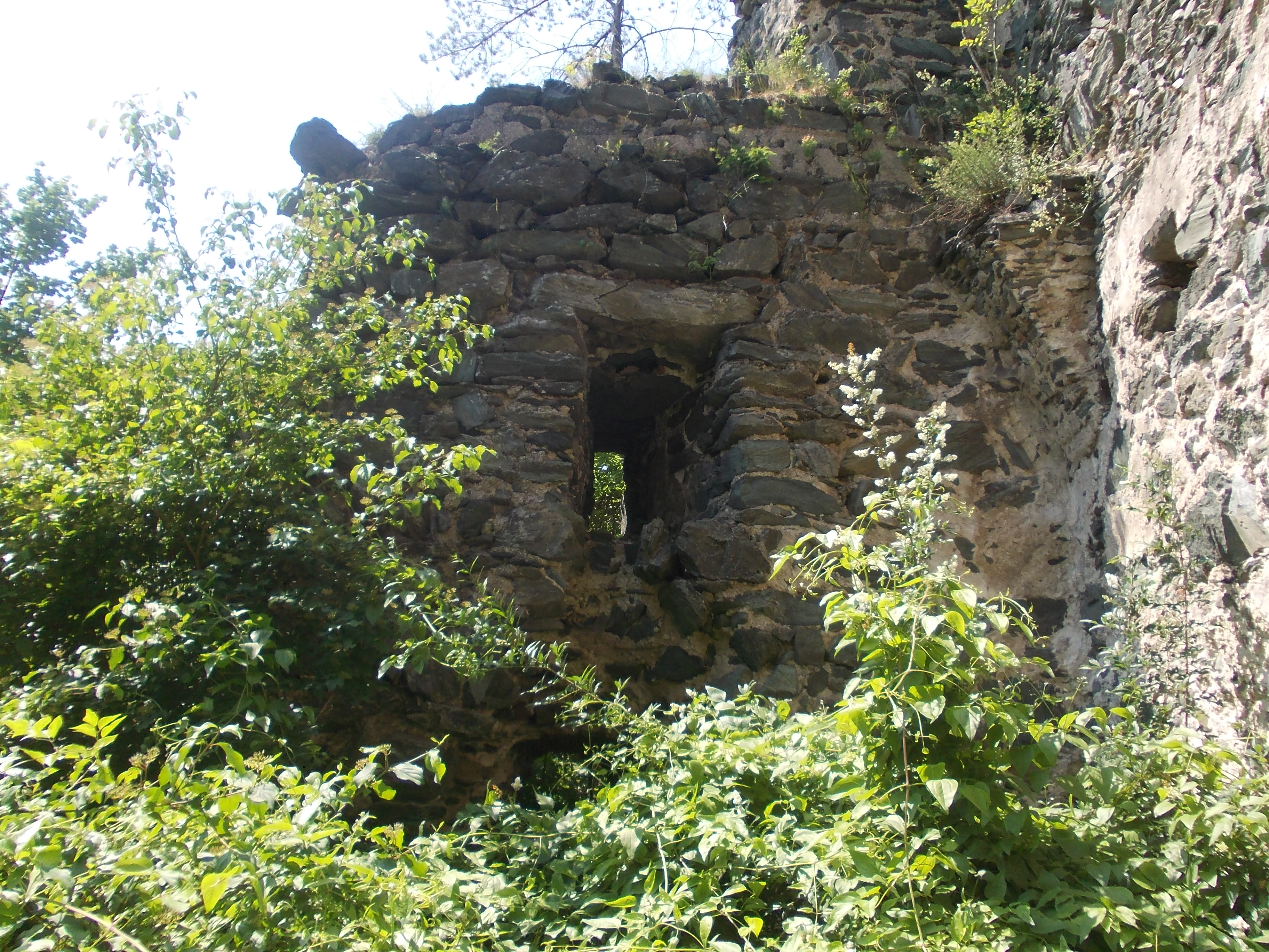 Dravograd Castle